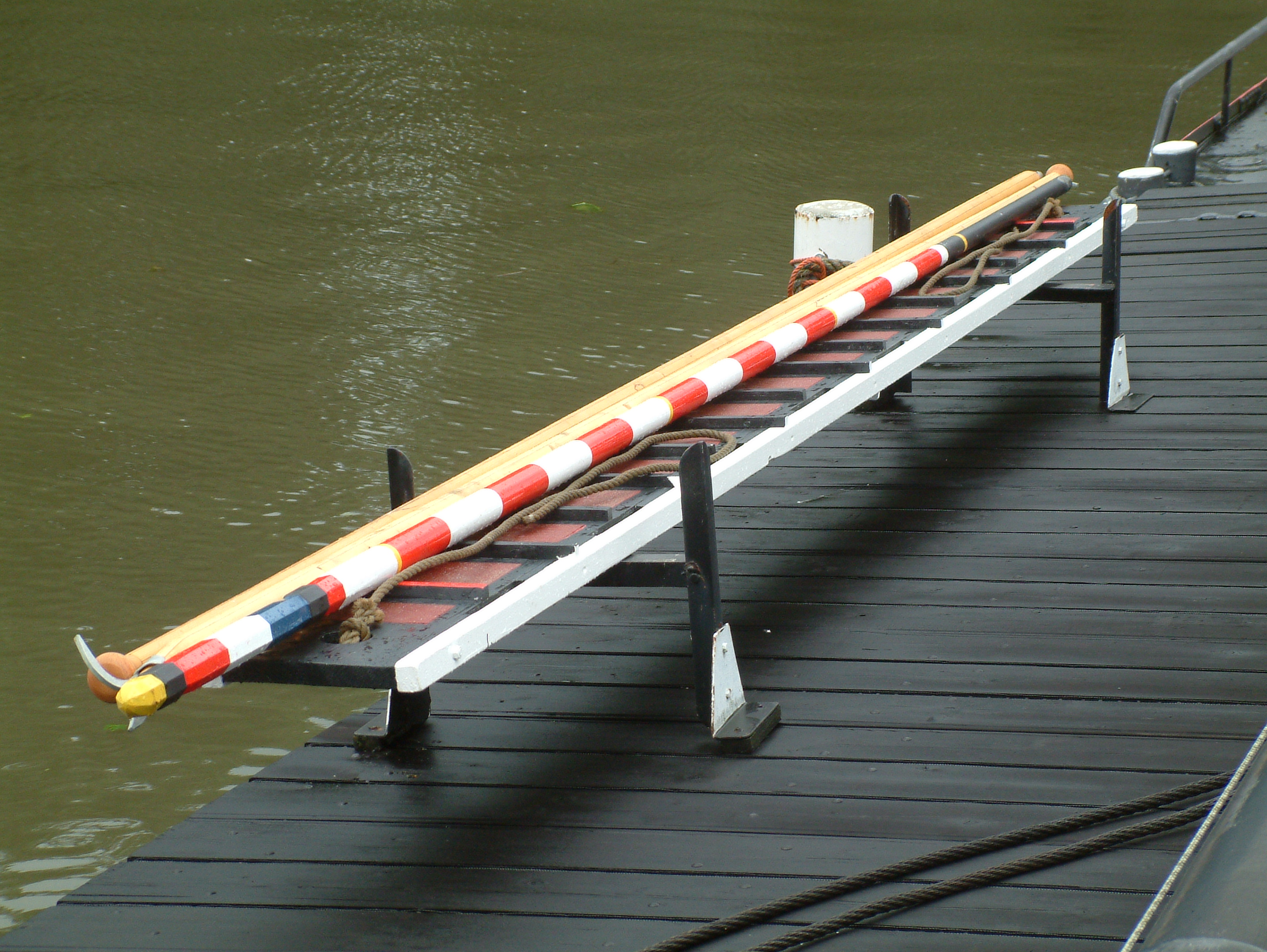 Wooden gangway of historical barge